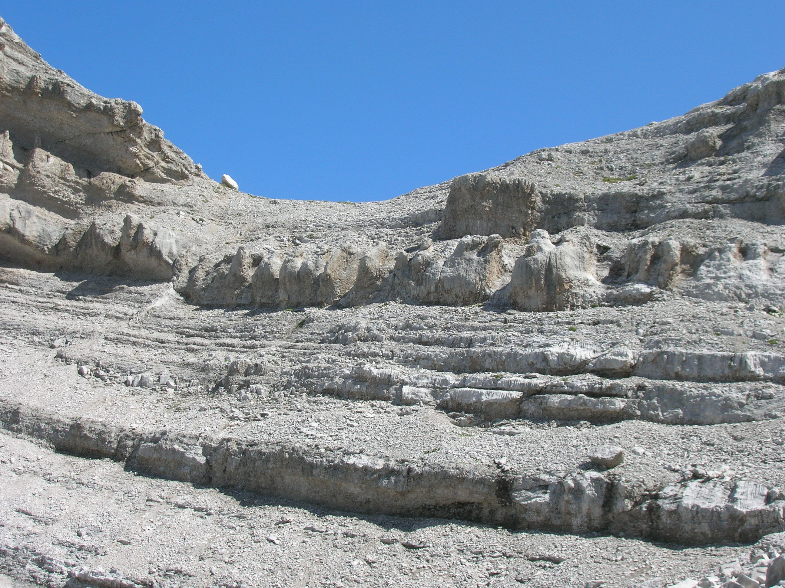 Passo XII Apostoli, Brenta Group, Dolomites